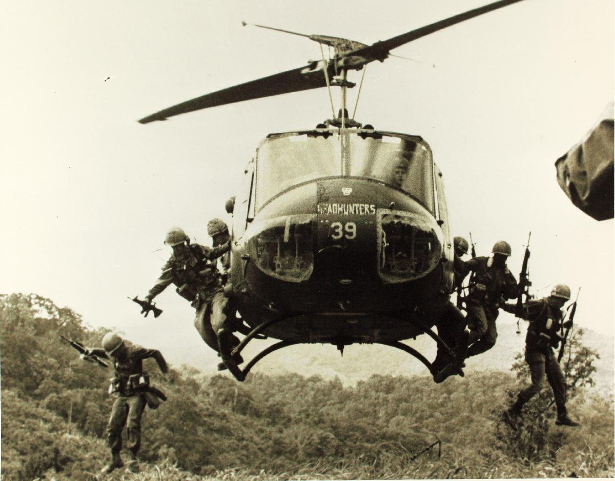 Bell , UH-1 , Iroquois (Huey)